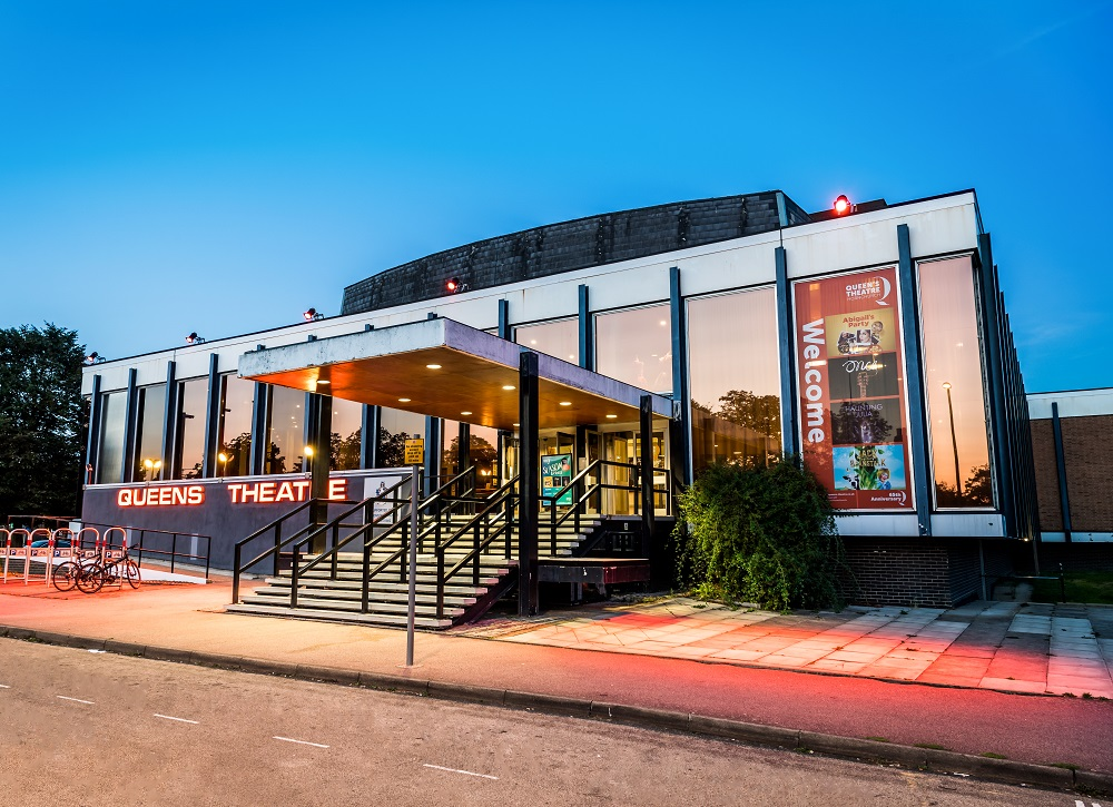 Theatre Exterior 2018